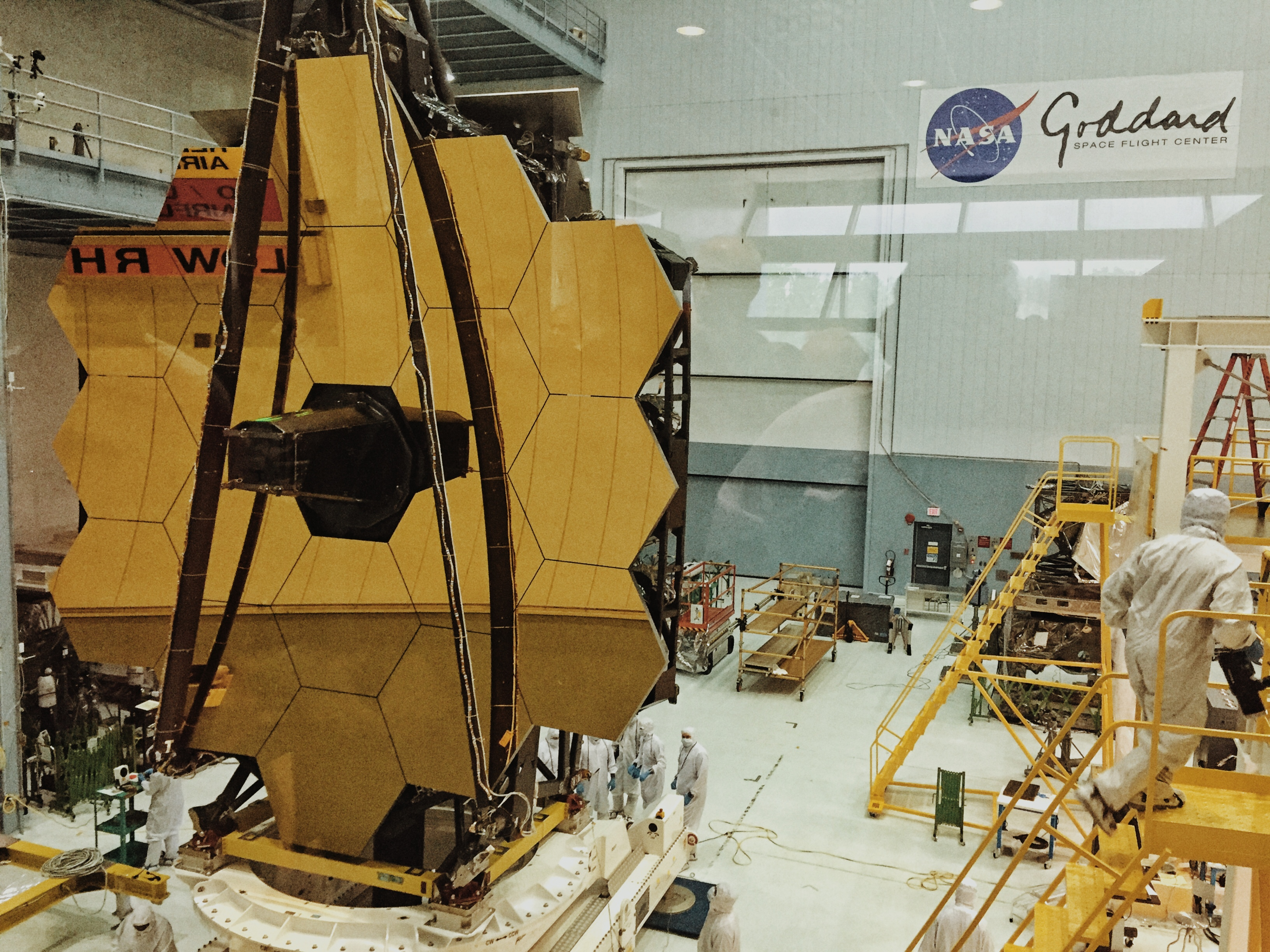 A rare view of the James Webb Space Telescope face-on, from the NASA Goddard cleanroom observation window. Credit: NASA/Goddard/Rebecca Roth